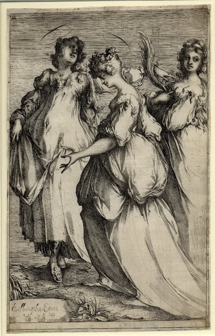 The three holy women; three women standing, two of them crowned with a halo, the other one holding a palm leaf. 1612/6 Etching with stipple Inscriptions Inscription Content: Signed on plate; lettered with production detail: 'Bellangelus. Eques In. fe' Height: 322 millimetres Width: 201 millimetres